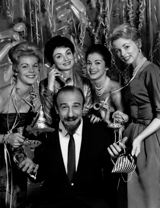 Publicity photo of Mitch Miller and his television cast of dancers from the show Sing Along With Mitch.